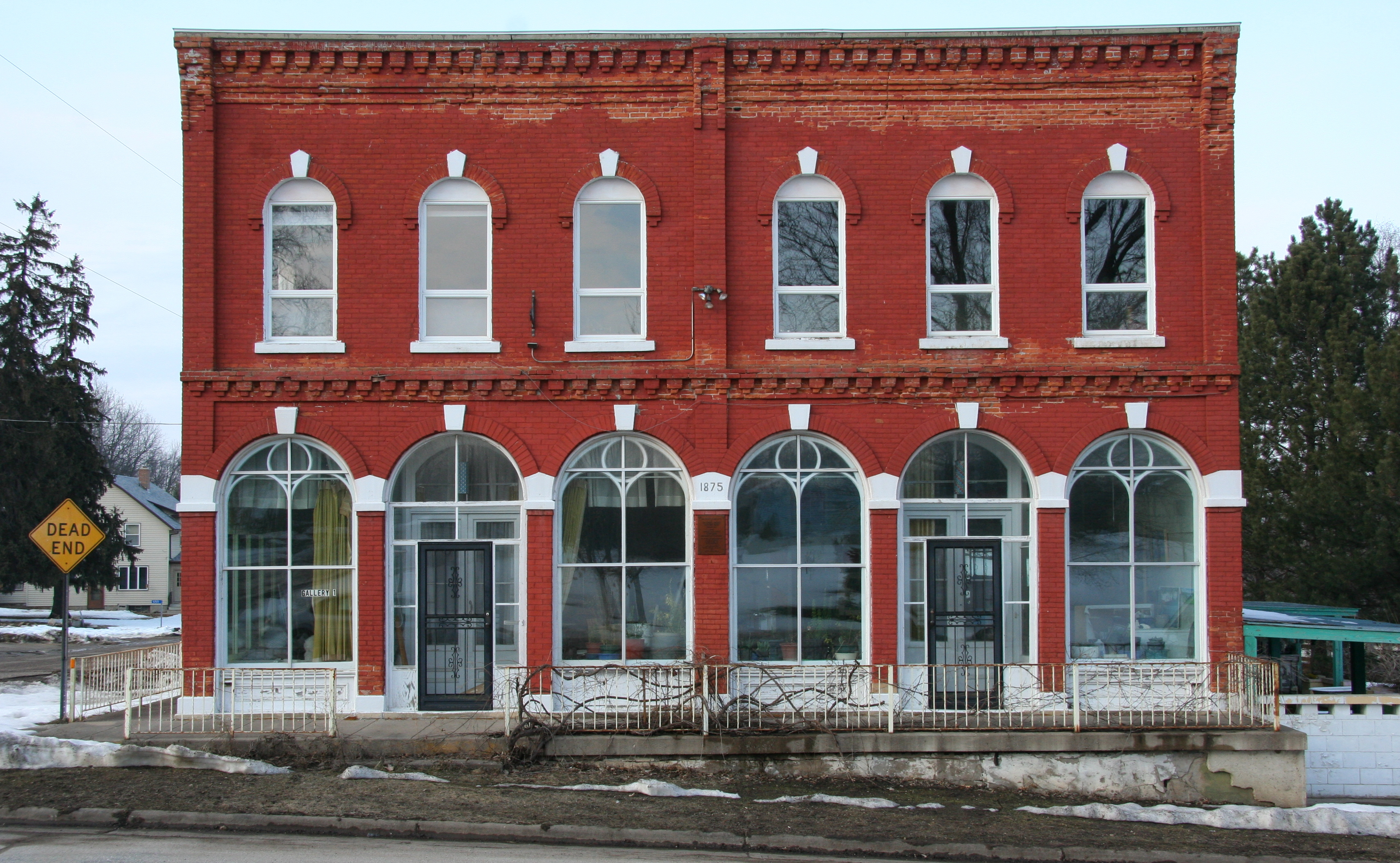 The front (south side) of the 1875 Weaver Mercantile Building, being used as an art studio, seen from the opposite side of Minnesota State Highway 74 near U.S. Route 61 in Weaver, Wabasha County, Minnesota